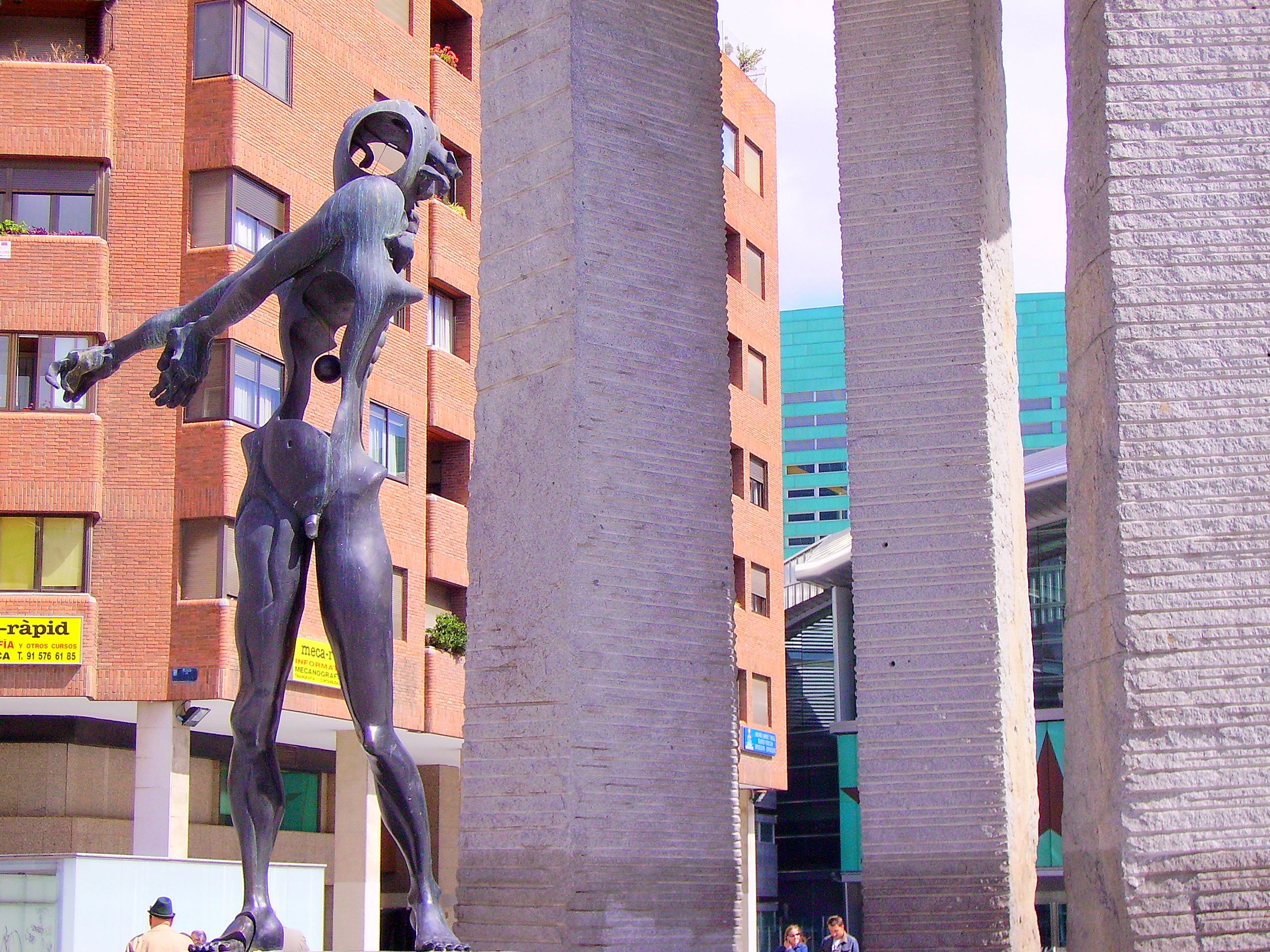 Detail of the monument (popularly known as "Dalí's Dolmen") at Plaza de Dalí (Dalí Square) in Madrid (Spain). The whole square was designed by Salvador Dalí (1904–1989) and inaugurated in 1986.